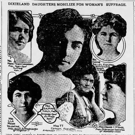 Newspaper graphic from Grand Forks Herald featuring women's suffragists from the south: Minnie Fisher Cunningham, Lila Meade Valentine, Mrs. Eugene Rielley, Mrs. Guildford Dudley, Mrs. TT Cotnam, and Mrs. Edward C. McGhee.